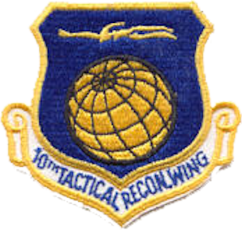 10th Tactical Reconnaissance Wing - Emblem